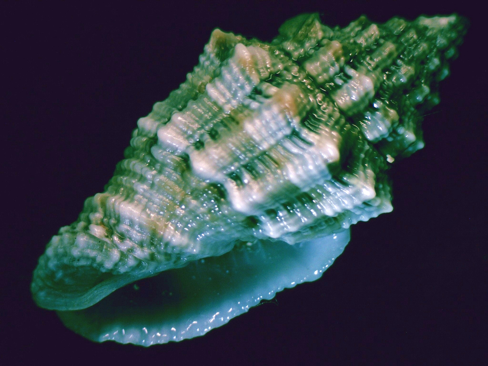 Vexillum crispum (Garrett, 1872) , an ribbed miter from the family Costellariidae; Philippines